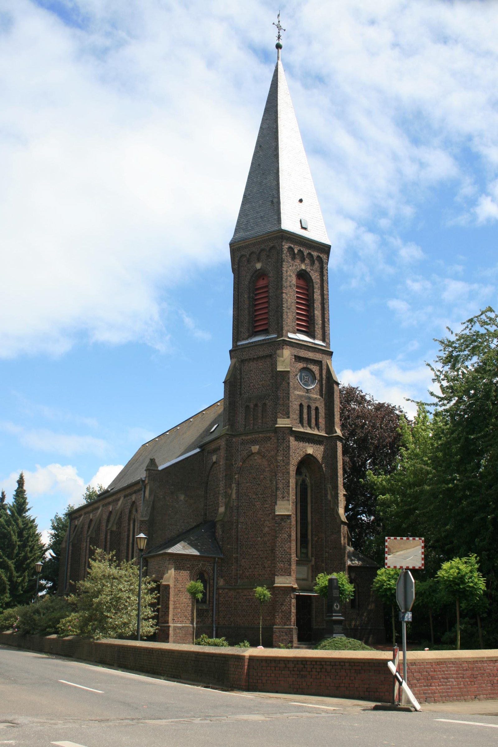 Cultural heritage monument No. 7 in Titz